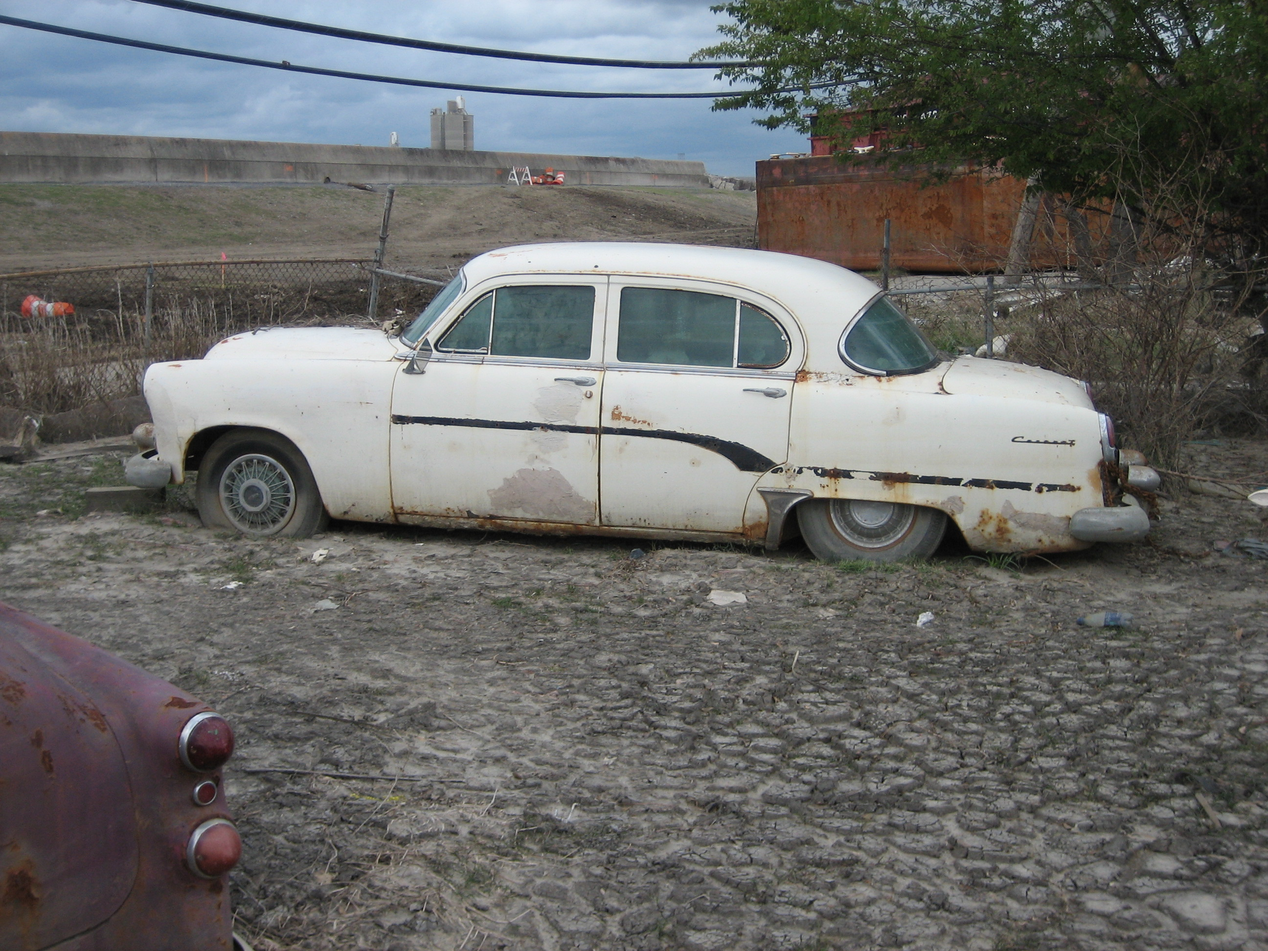 New Orleans after Hurricane Katrina: 1954 Dodge in Lower 9th Ward neighborhood. Note storm silt. Car, most of the surrounding neighborhood, was under flood waters for weeks. In background, Industrial Canal levee and the ING 4727 barge that went through levee breach into neighborhood.